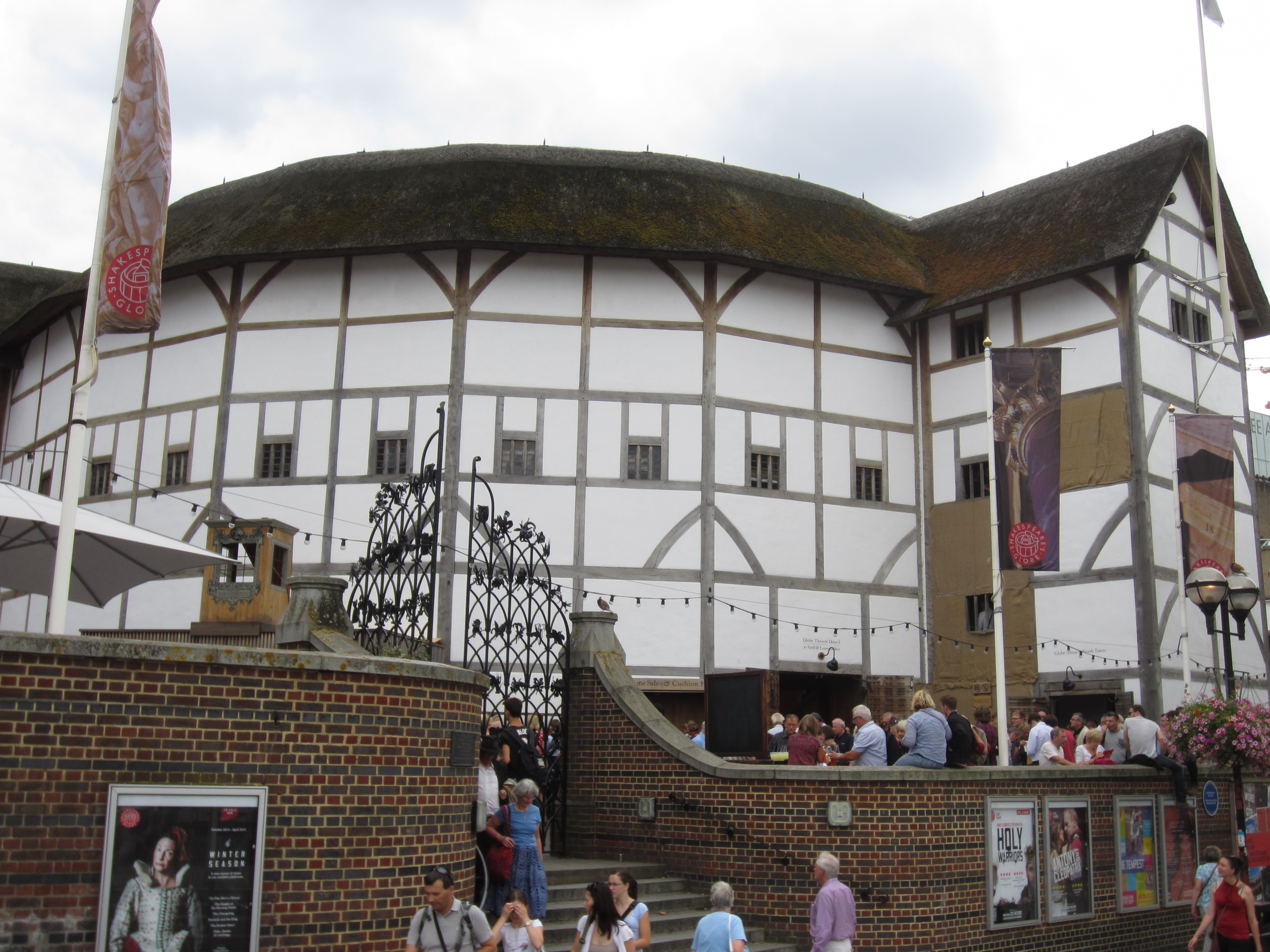 London, United Kingdom (August 2014)